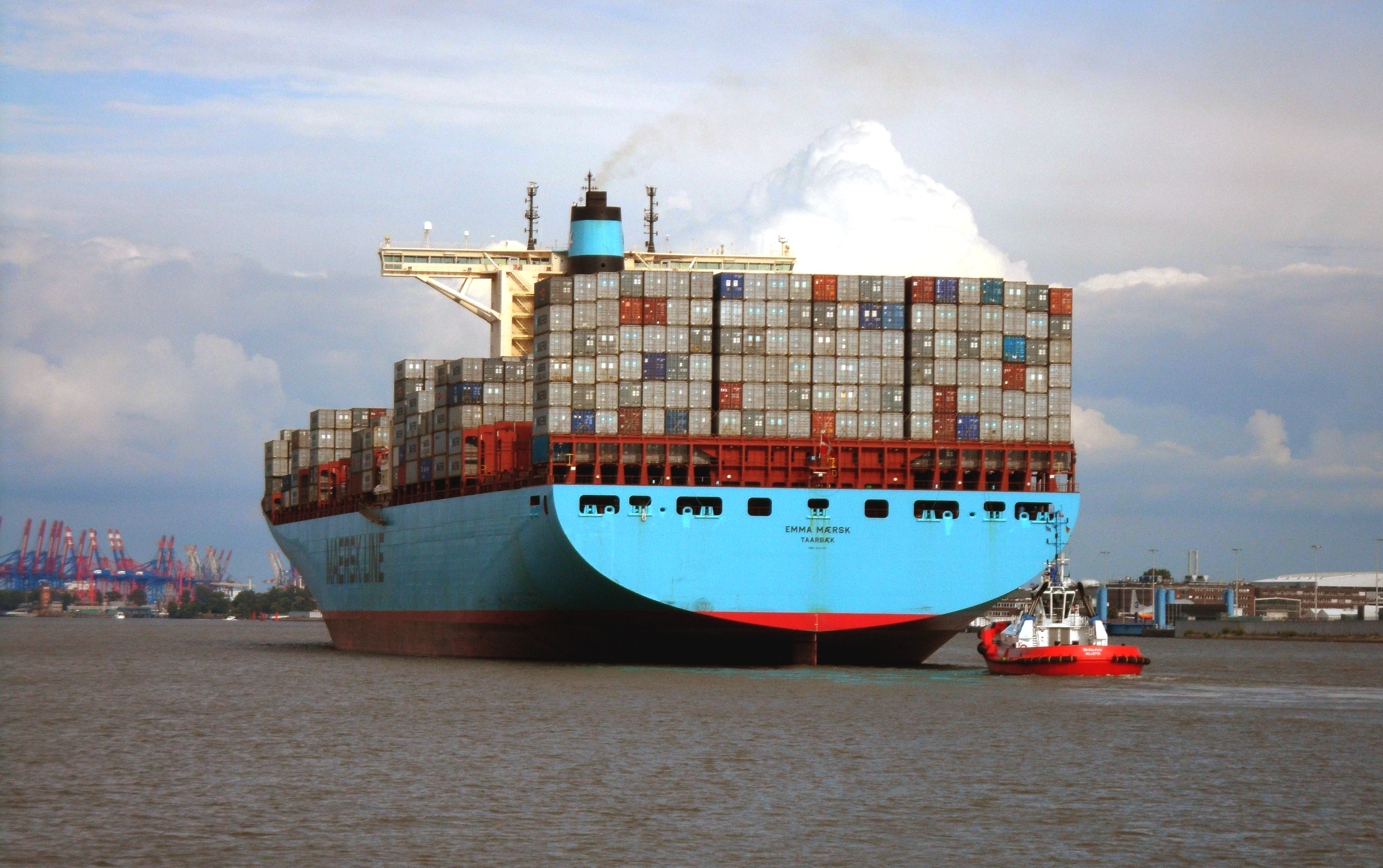 Container ship Emma Maersk with Destination Port of Hamburg in June 2014